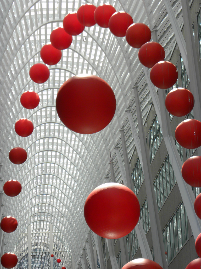 david rokeby